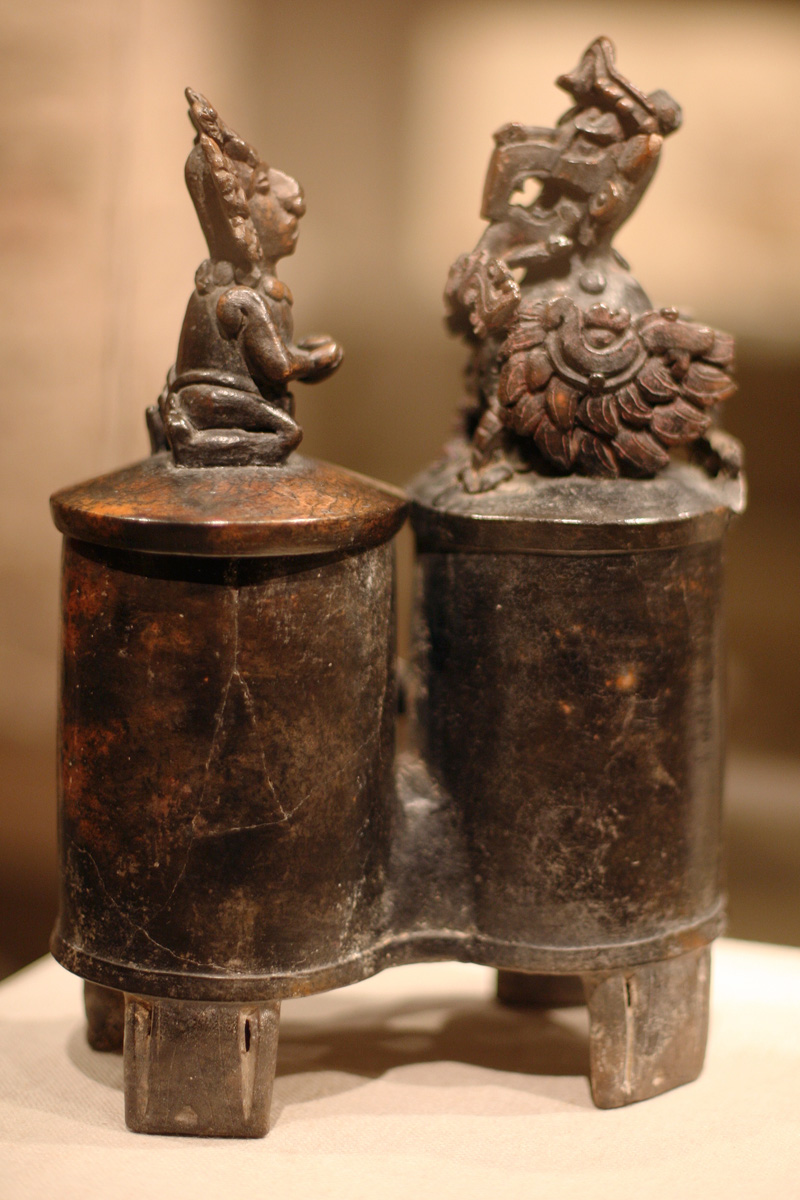 Double Chambered Vessel, 5th century Mexico/Guatemala; Maya Ceramic; H x W x D: 11 7/8 x 7 3/4 x 5 1/4 in. (30.2 x 19.7 x 13.3 cm) The Metropolitan Museum of Art, New York, The Michael C. Rockefeller Memorial Collection, Gift of Nelson A. Rockefeller, 1963 (1978.412.90a, b) View at the Metropolitan Museum of Art website Wikipedia Loves Art at the Metropolitan Museum of Art This photo of item # 1978.412.90 at the Metropolitan Museum of Art was contributed under the team name "shooting_brooklyn" as part of the Wikipedia Loves Art project in February 2009. Metropolitan Museum of Art The original photograph on Flickr was taken by shooting brooklyn—please add a comment to the original Flickr page whenever a use has been made on Wikipedia or another project. Project galleries on Flickr: this institution, this team